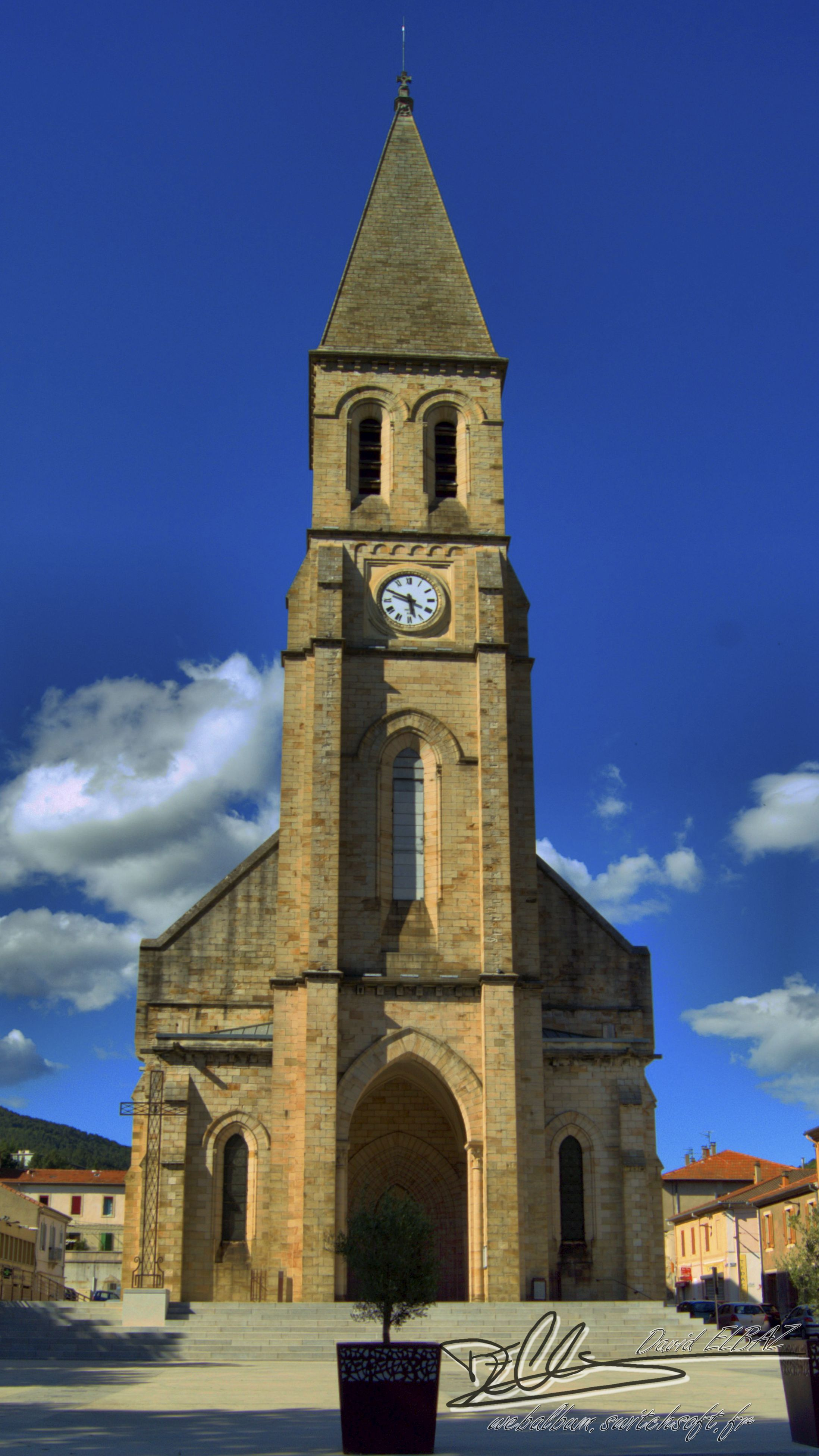 Notre-Dame de l'Immaculée Conception (Immaculate Conception) from "La Grand Combe" (France, Gard)